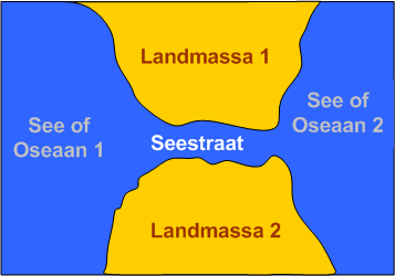 Diagram of a strait.